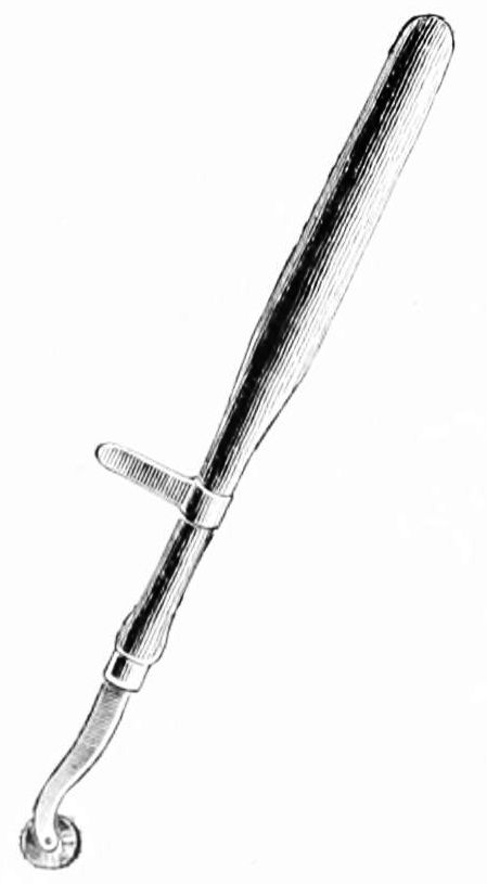 The roulette